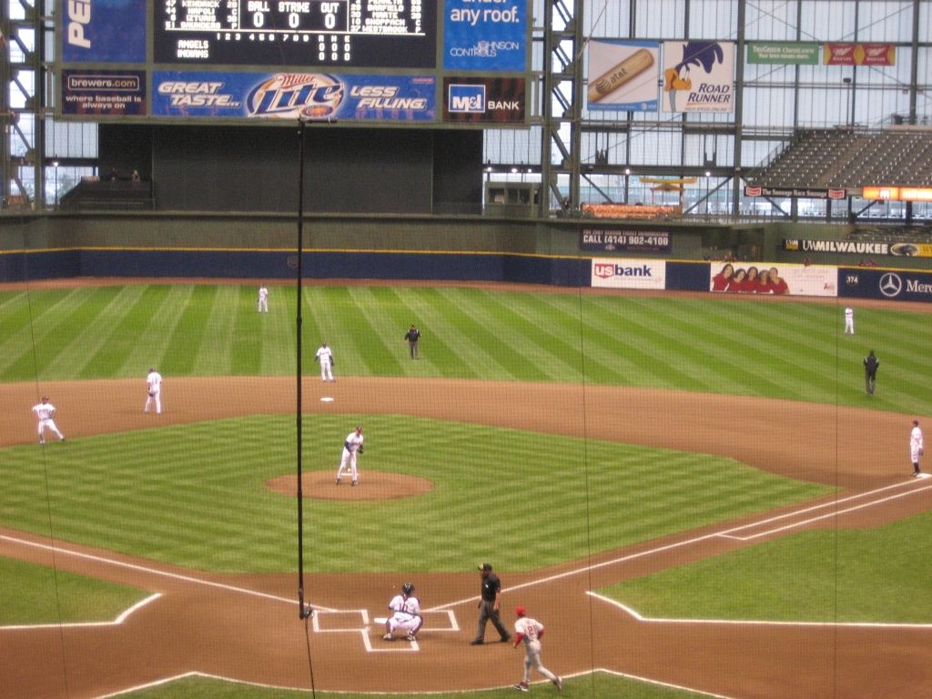 The Cleveland Indians played a relocated home game against the Los Angeles Angels of Anaheim on April 11, 2007 due to severe weather. Over 50,000 fans attended the three game series.